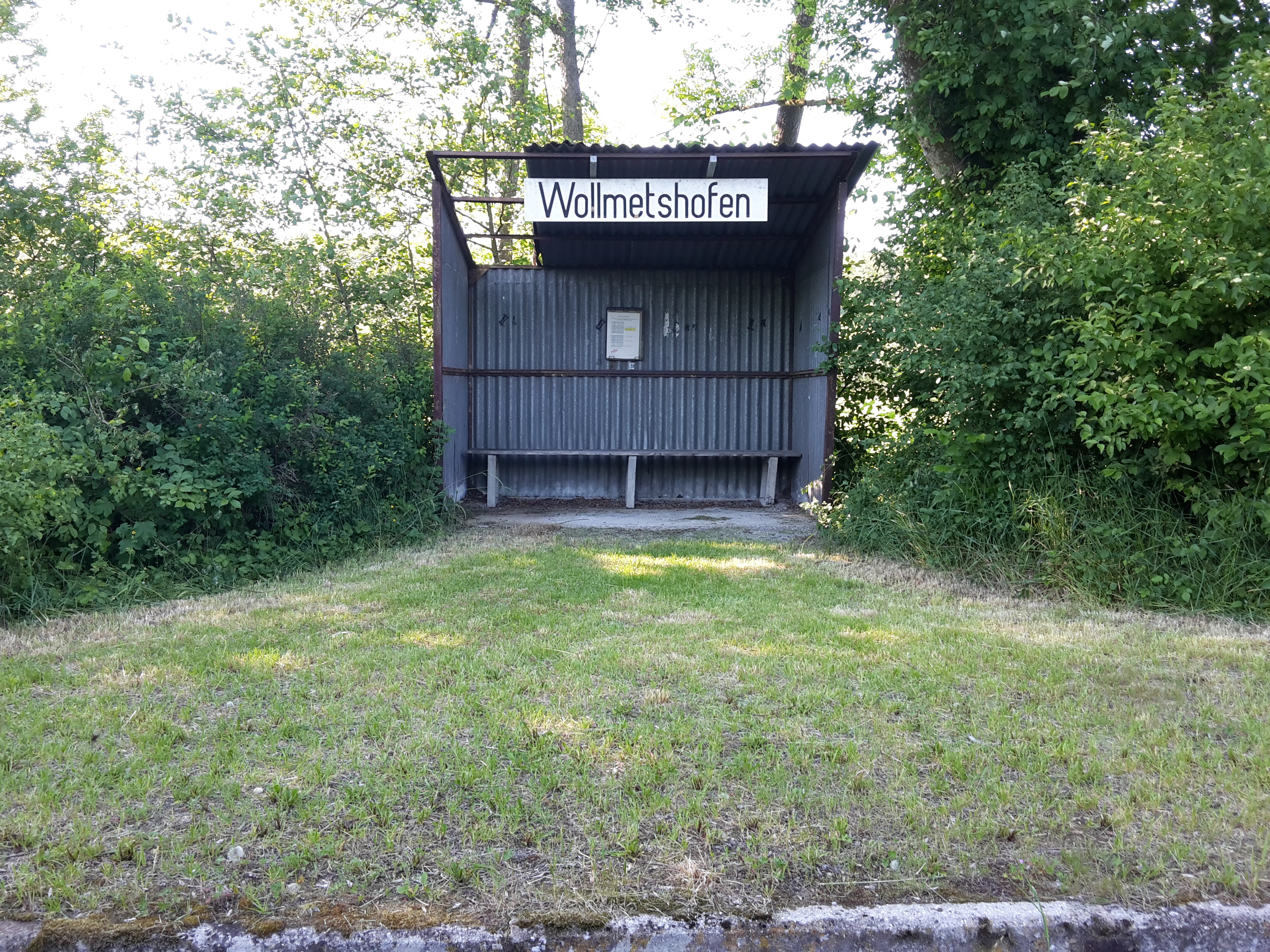 Train Station Wollmetshofen at the Staudenbahn in Bavarian Swabians